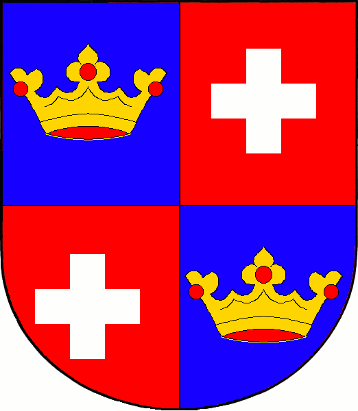 Municipal coat of arms of Chvalšiny village, Český Krumlov District, Czech Republic.